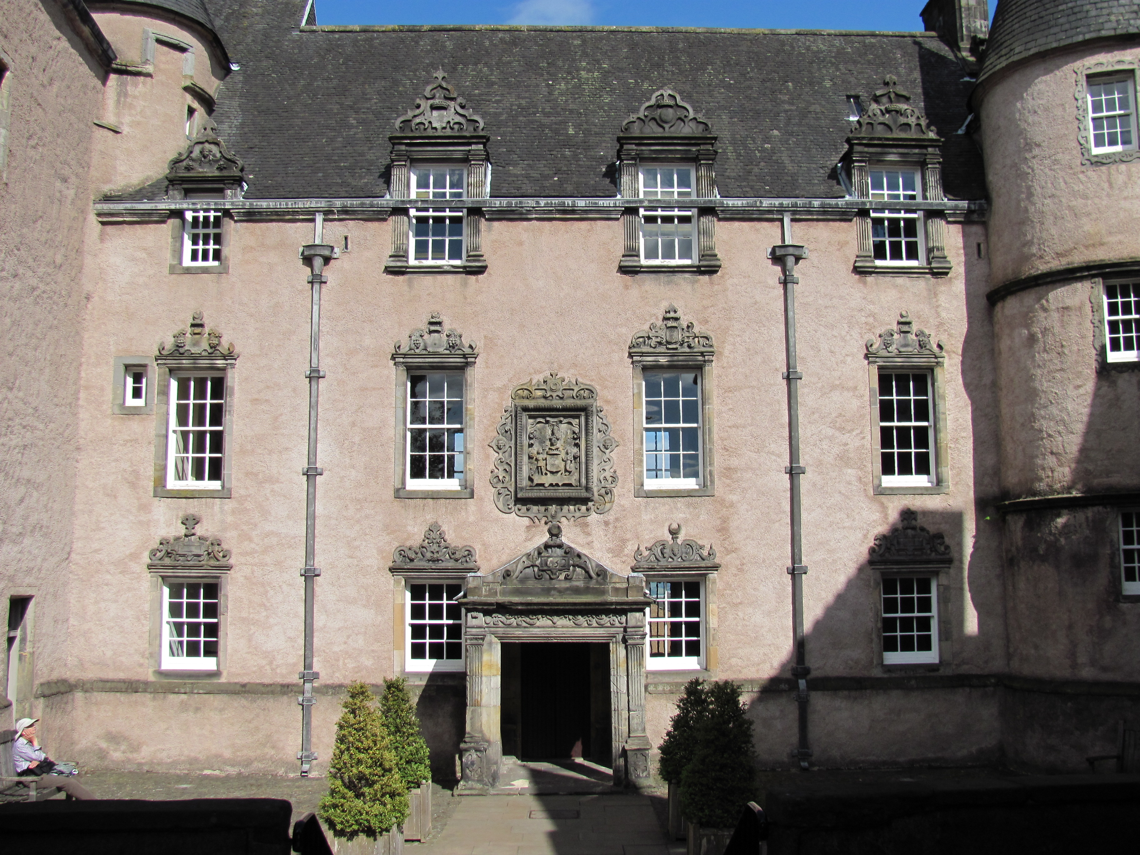 Argyll's Lodging, Stirling, Scotland.